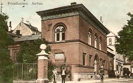 The first HQ of Aarhuus Privatbank, built 1887 to a design by Carl Thonning. Demolished 1929.